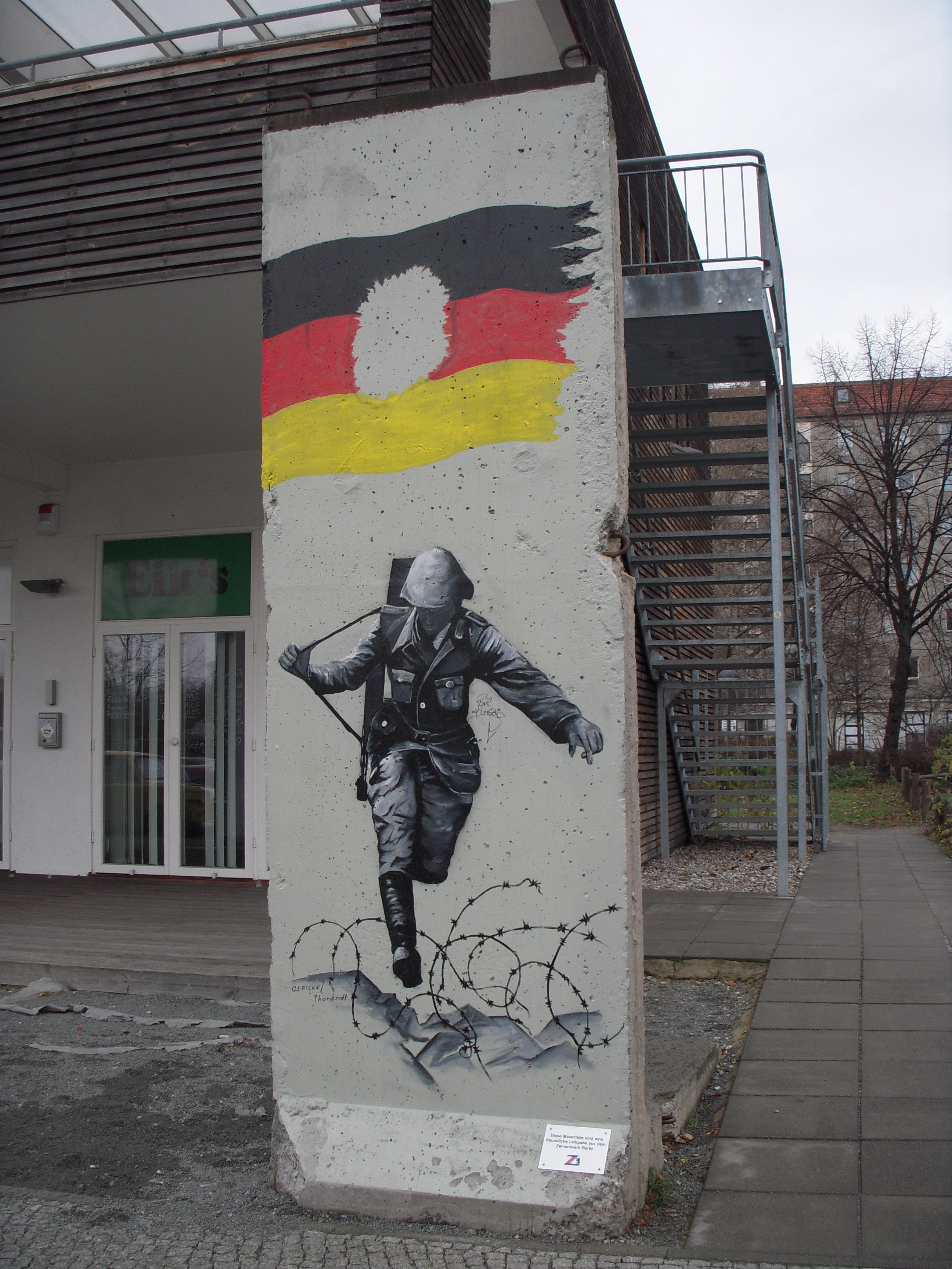 Conrad Schumann's escape to the West as a dekorated part of the Berlin-Wall in Gertrud-Kolmar-Strasse in Berlin. December 12, 2011.